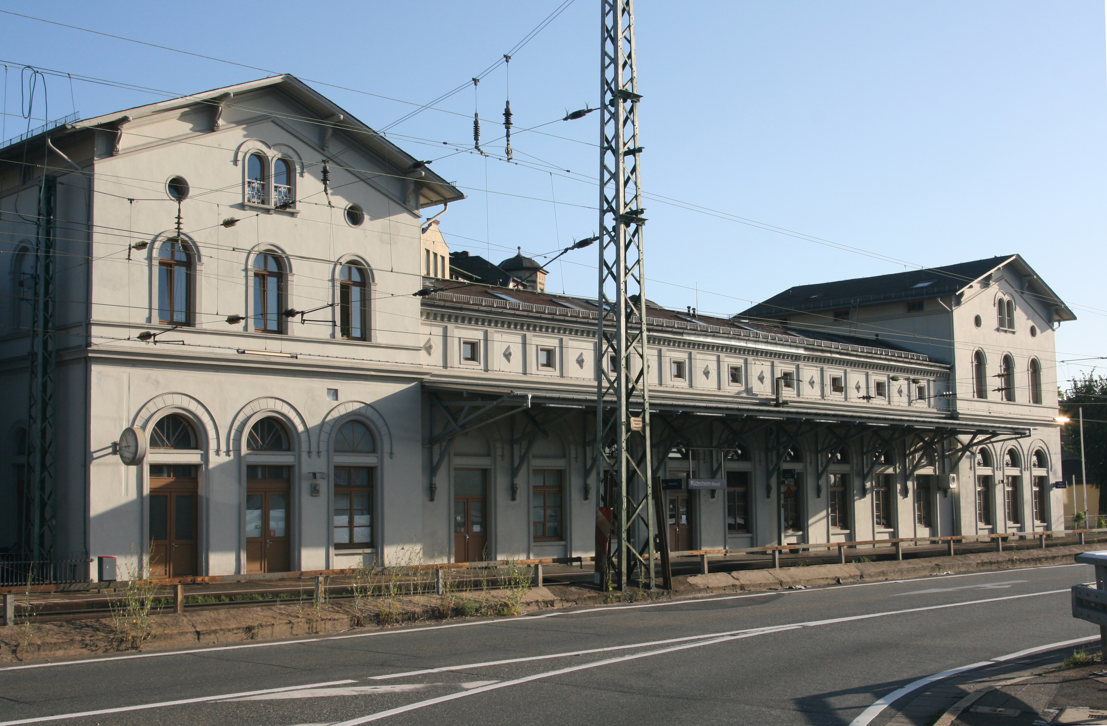 Train station of Rüdesheim am Rhein, Germany. 1854-1856 by Heinrich Velde.